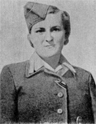 Judicial trial of the Nazi officials serving at the Majdanek extermination camp, Poland. In this photograph, Rapportführer Hermine Braunsteiner, listed as war criminal in absentia.